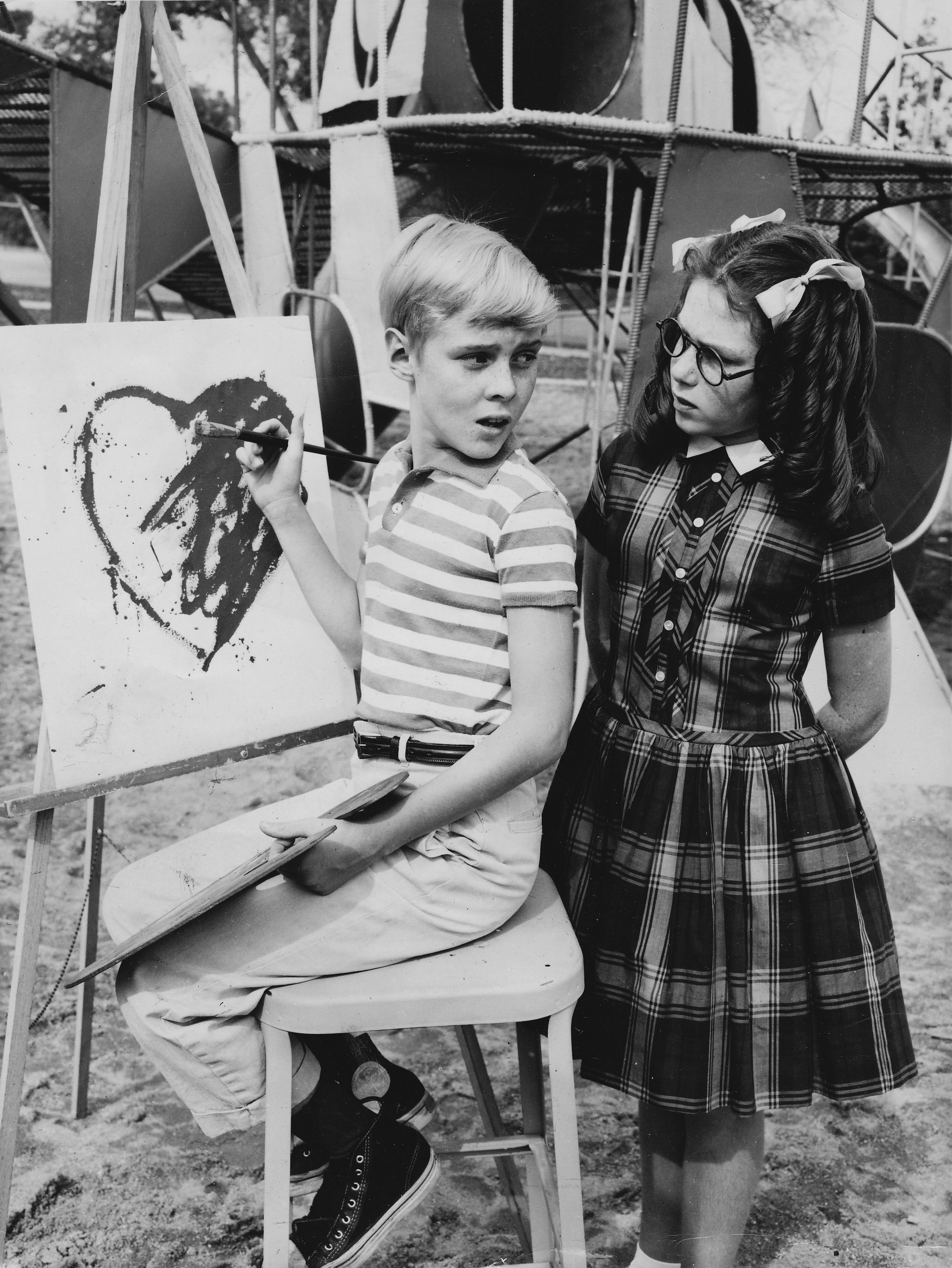 Publicity photo of American child actors, Jay North and Jeannie Russell promoting their roles on the CBS comedy television series Dennis the Menace.